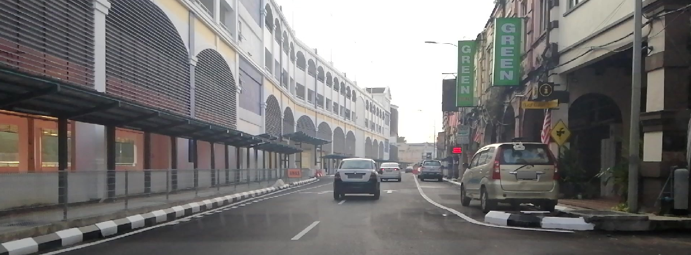 Jalan Raya Timur, Klang with Klang multi storey parking